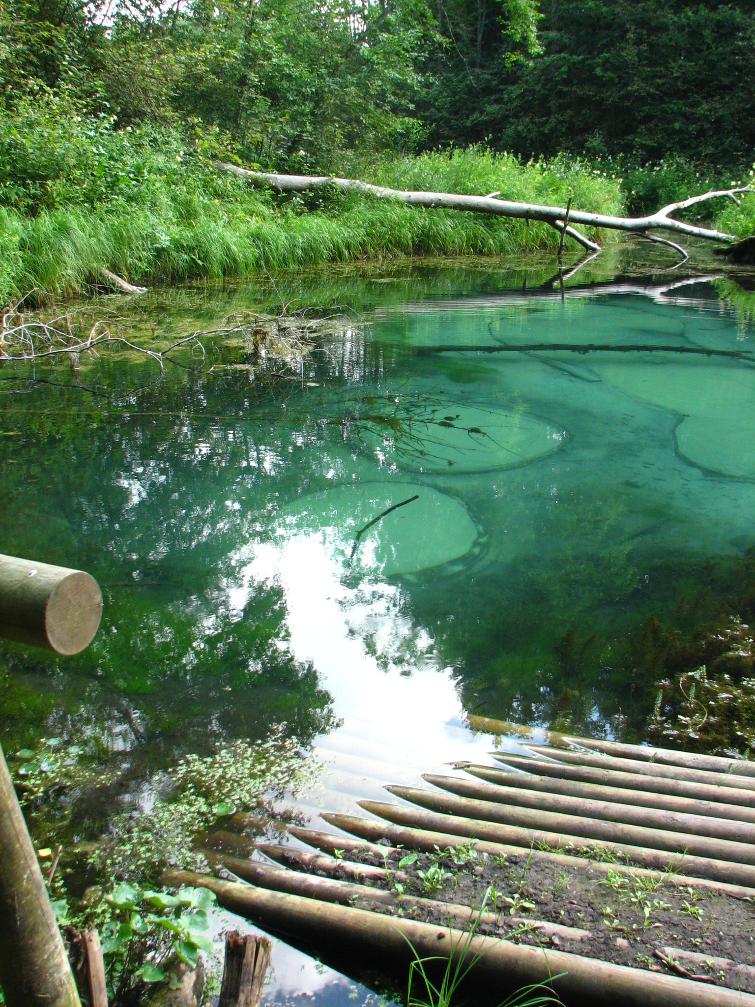 Saula wellspring